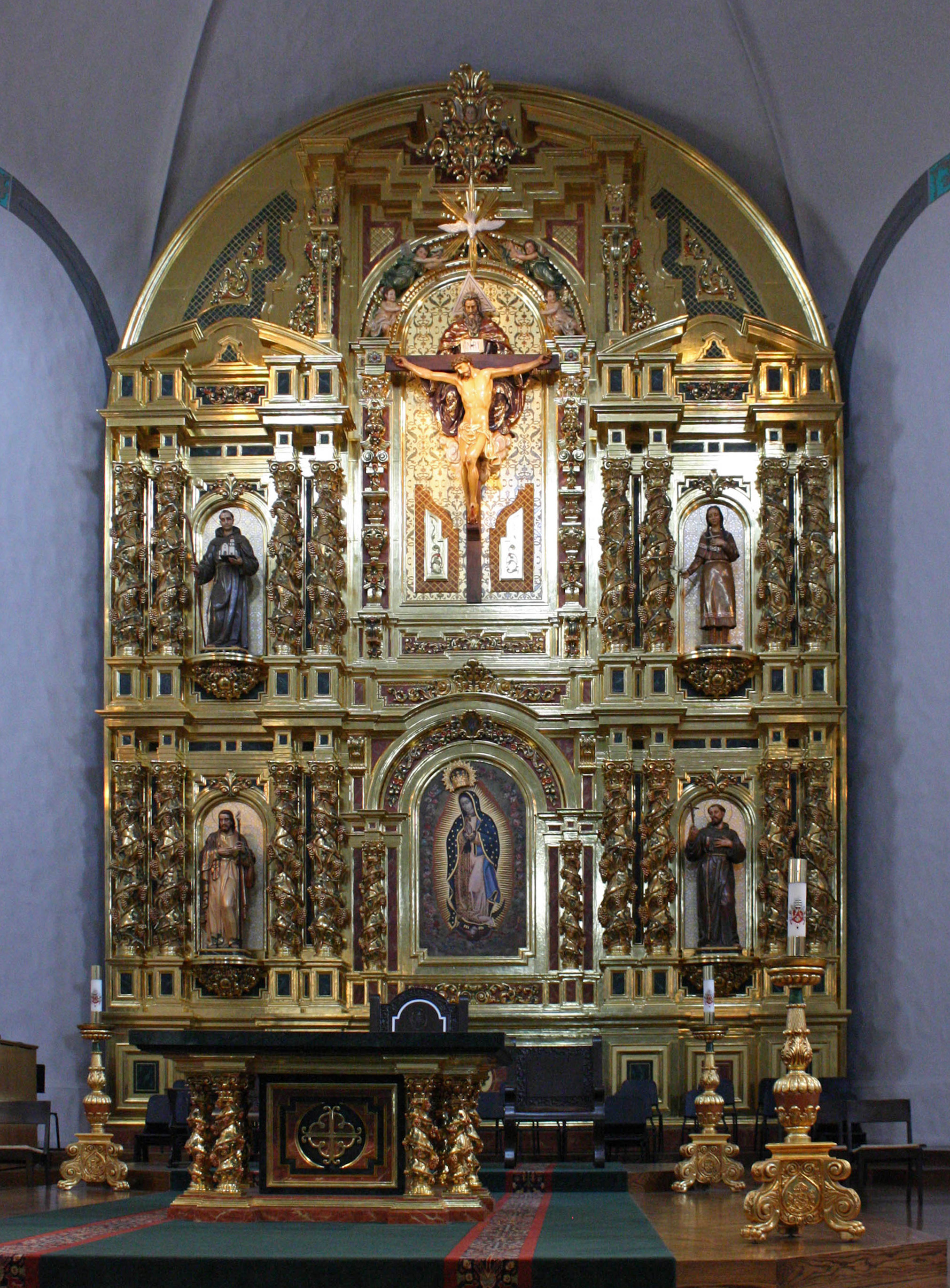 The Grand Retablo (2007) of the Mission Basilica San Juan Capistrano, San Juan Capistrano, California